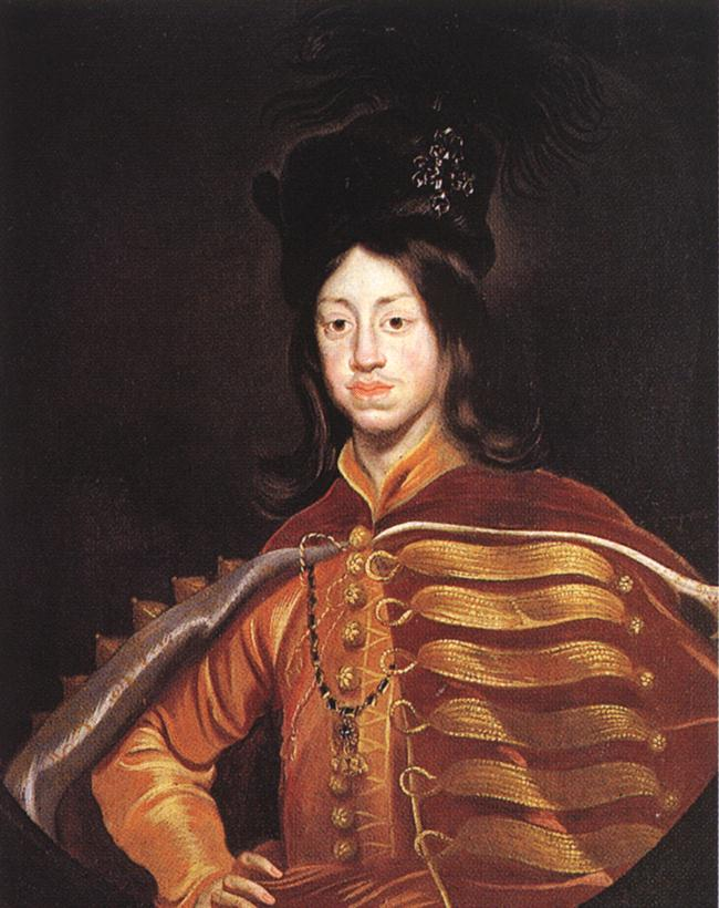 Leopold I, Holy Roman Emperor (1640-1705)